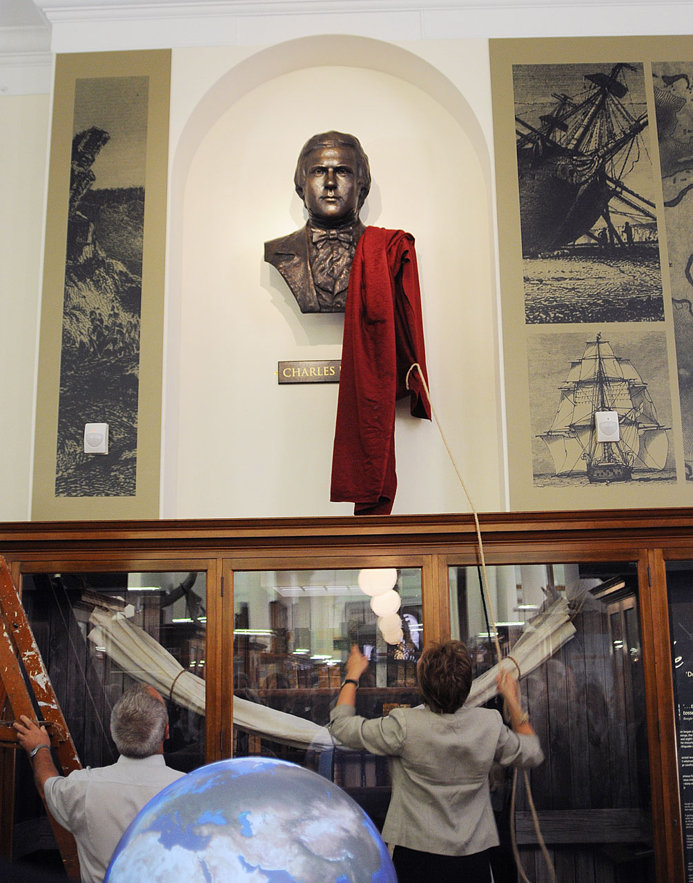 Bronze portrait bust of the young Charles Darwin by British sculptor Anthony Smith at the Sedgwick Museum, Cambridge.